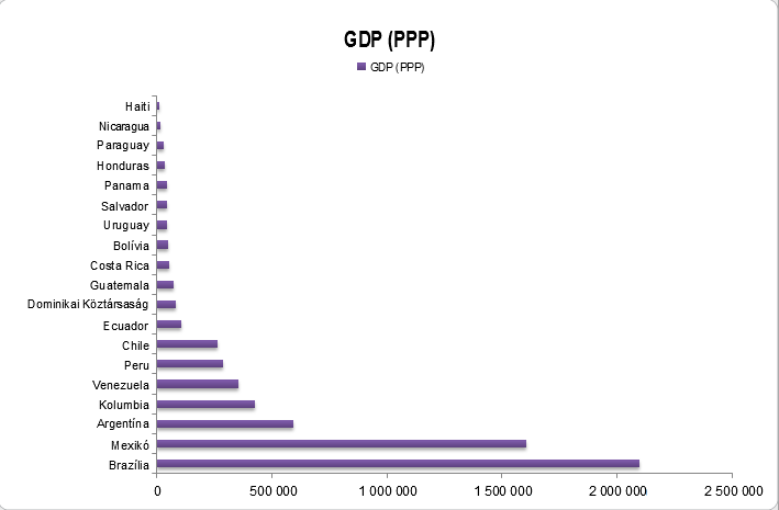 GDP PPA 2011. GDP of some member states of CELAC in year 2011, IMF estimation.